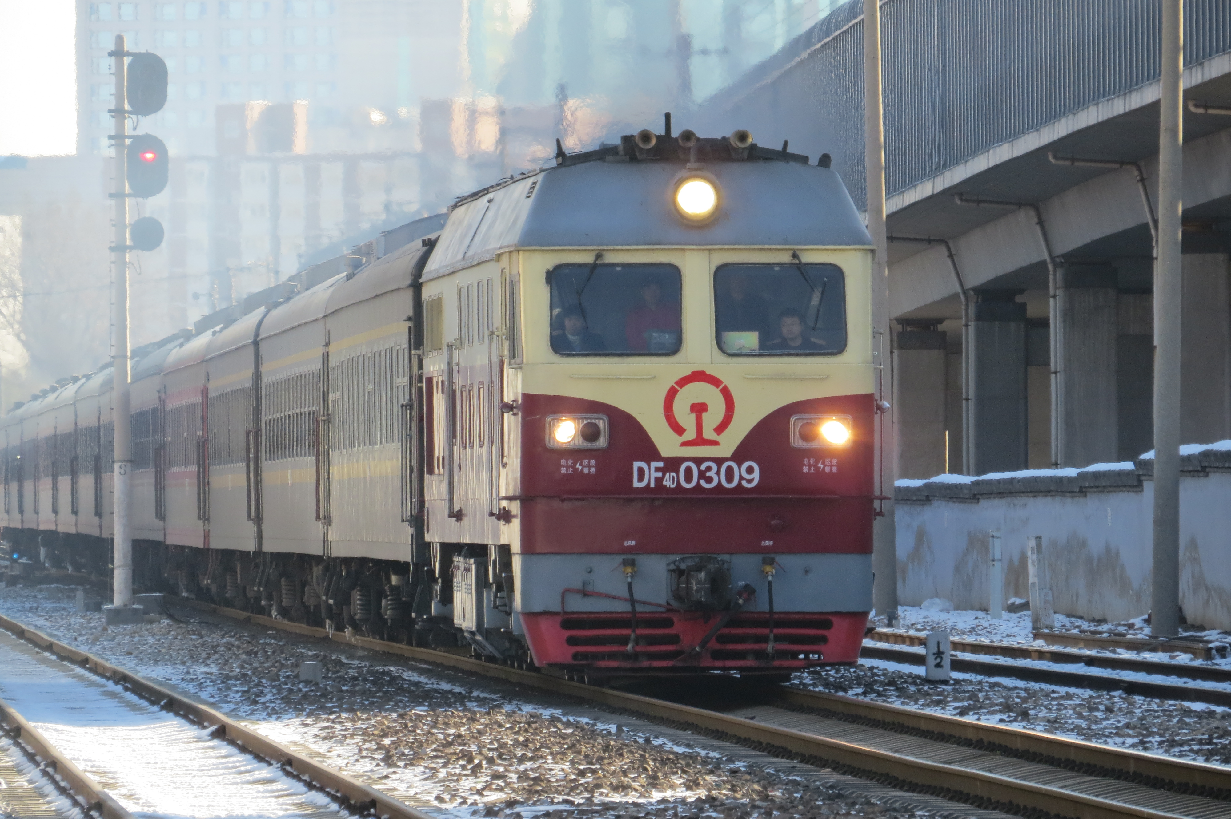 1801 to Qiqihar. Typical winter sight on Xiayuan Festival & Thanksgiving Day.